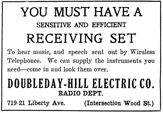 Advertisement for radio receiver sets sold by the Doubleday-Hill Electric Company of Pittsburgh, Pennsylvania.